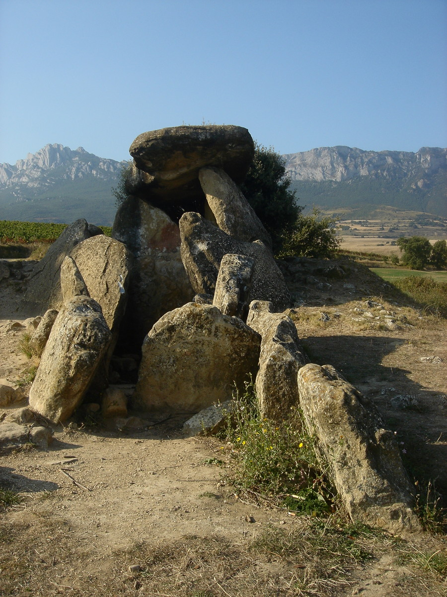 Dolmen in Bilar (Araba, Basque Country, Spain)